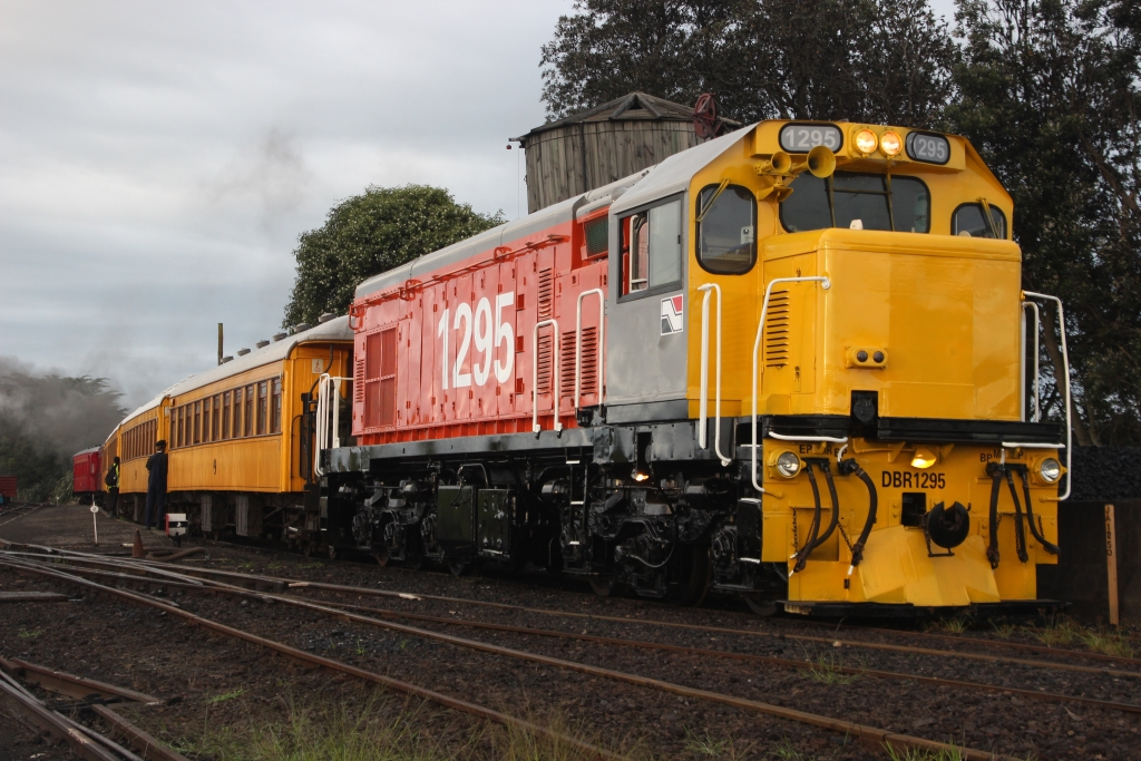 DBR 1295 sits at Pukeoware Depot on the Glenbrook Vintage Railway shortly after a repaint into the International Orange livery. The locomotive is about to head out on its first public outing both in preservation and in this livery. The train is one of two running services for the GVR's Day Out with Thomas.